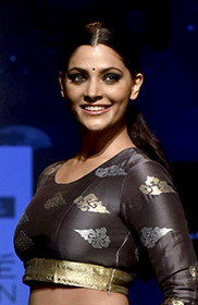 Saiyami Kher graces Lakme Fashion Week 2018 – Day 4